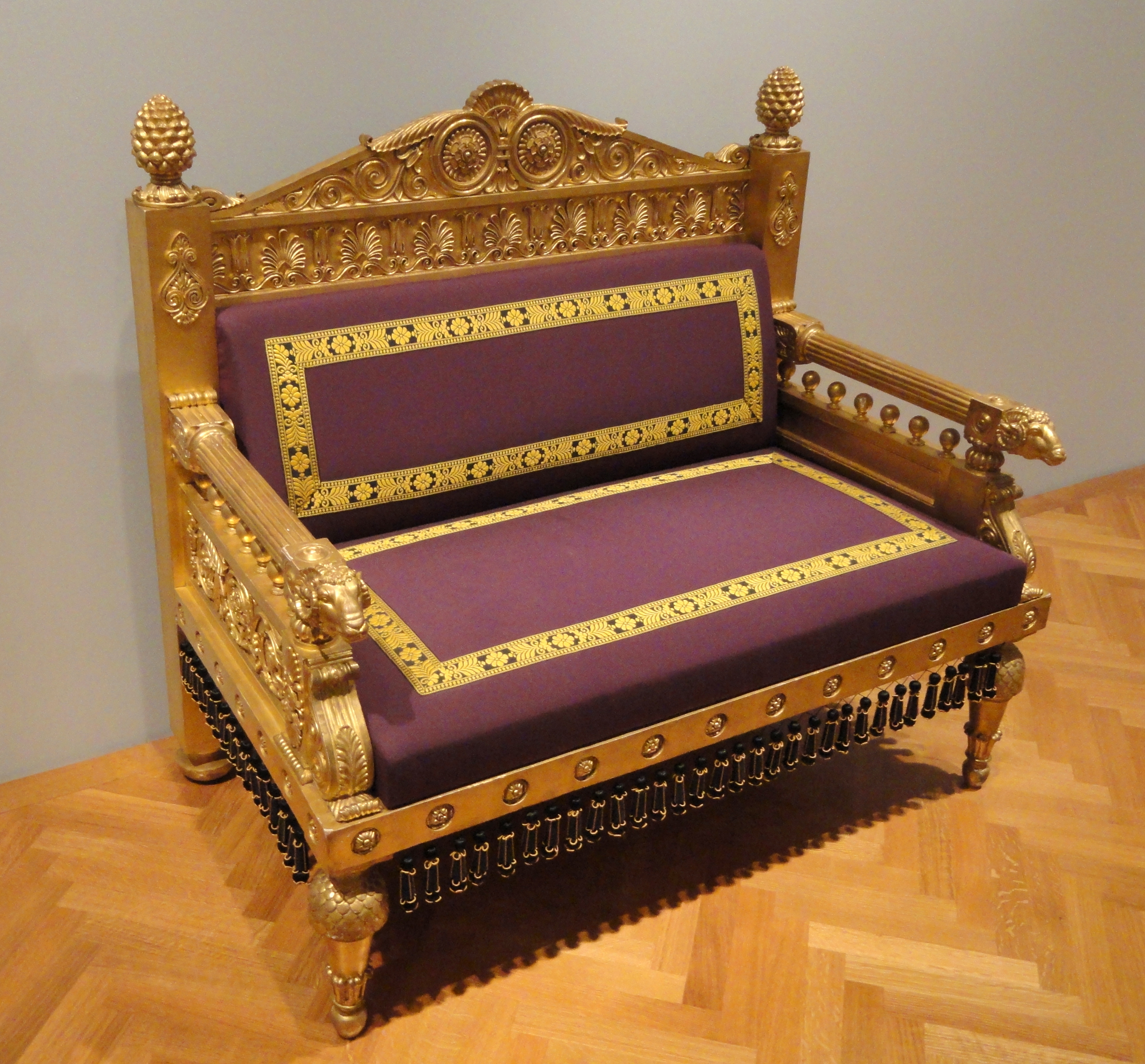 Exhibit in the Cleveland Museum of Art, Cleveland, Ohio, USA. This artwork is old enough so that it is in the public domain.